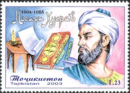 Stamps of Tajikistan